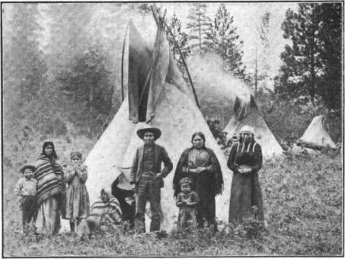 Original caption: "A group of Coeur d'Alene Indians on the Desmet Reservation, Idaho."